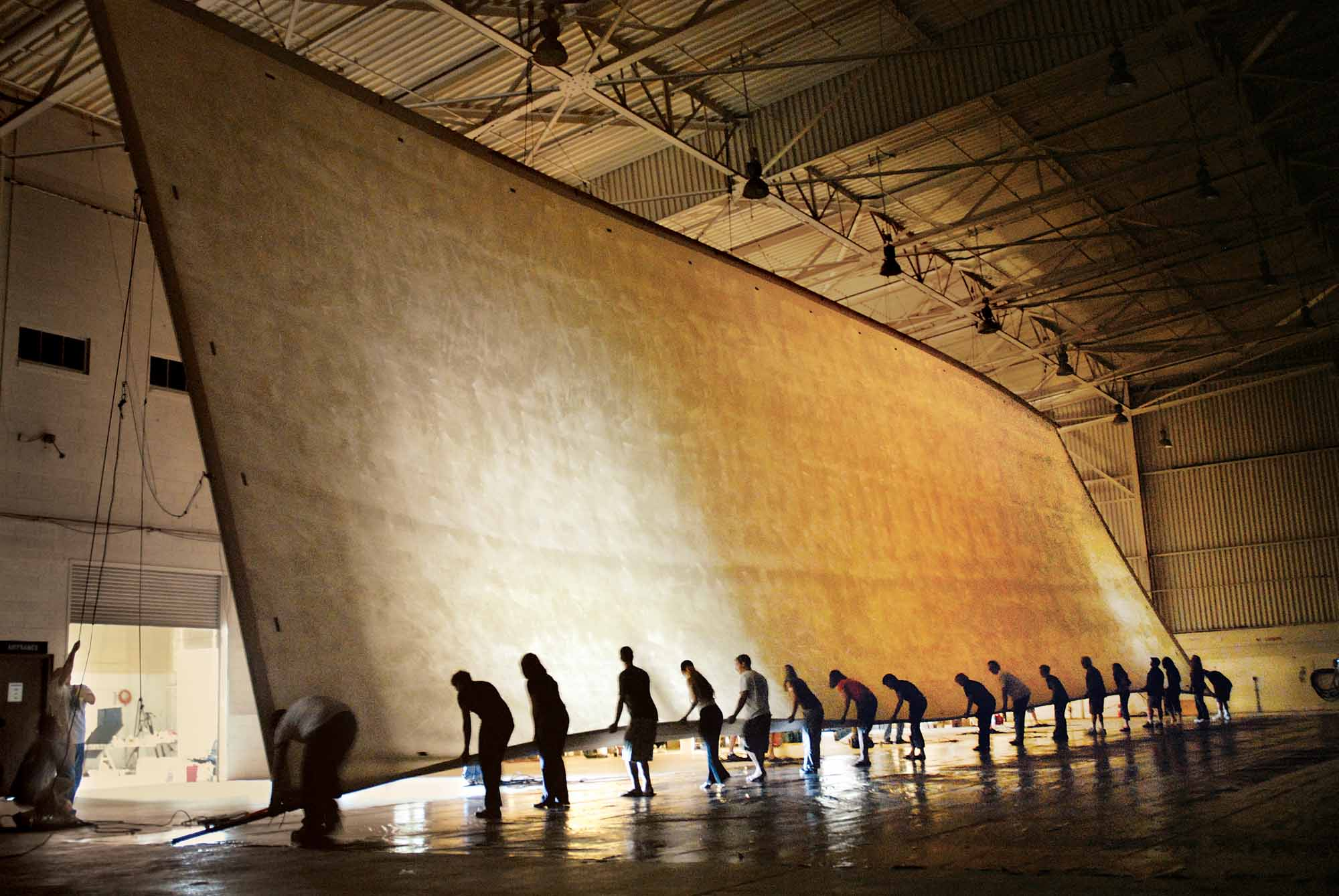 The artists and volunteers lift the uncoated Great Picture muslin into place in the hangar-as-camera.